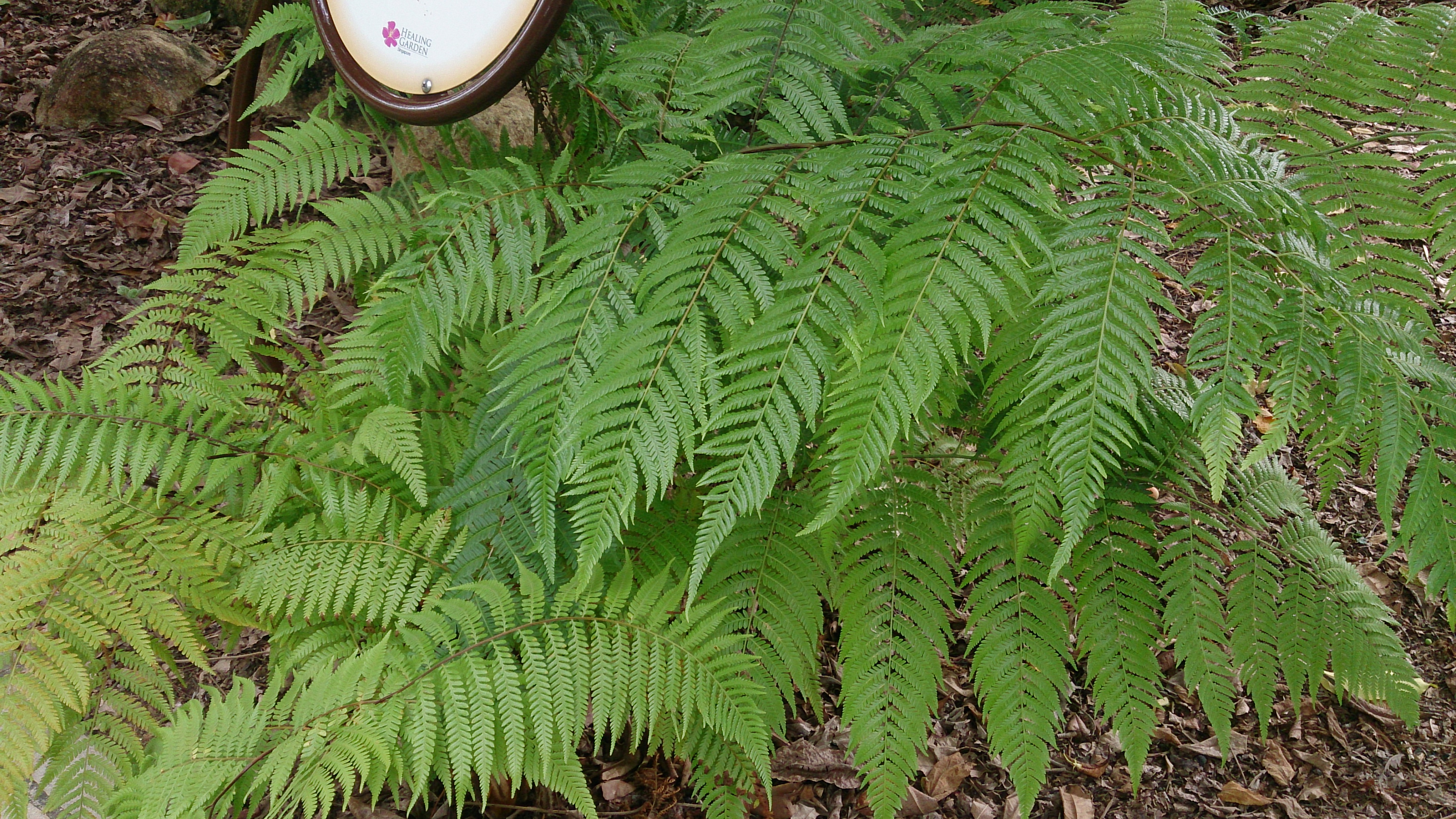 Cibotium barometz. Common names: Golden Chicken Fern. Bulu pusi (Malay). Distributed from South-east Asia to China. The rhizome is used to treat liver and kidney problems. It is used as a styptic for wounds and to strengthen bones.